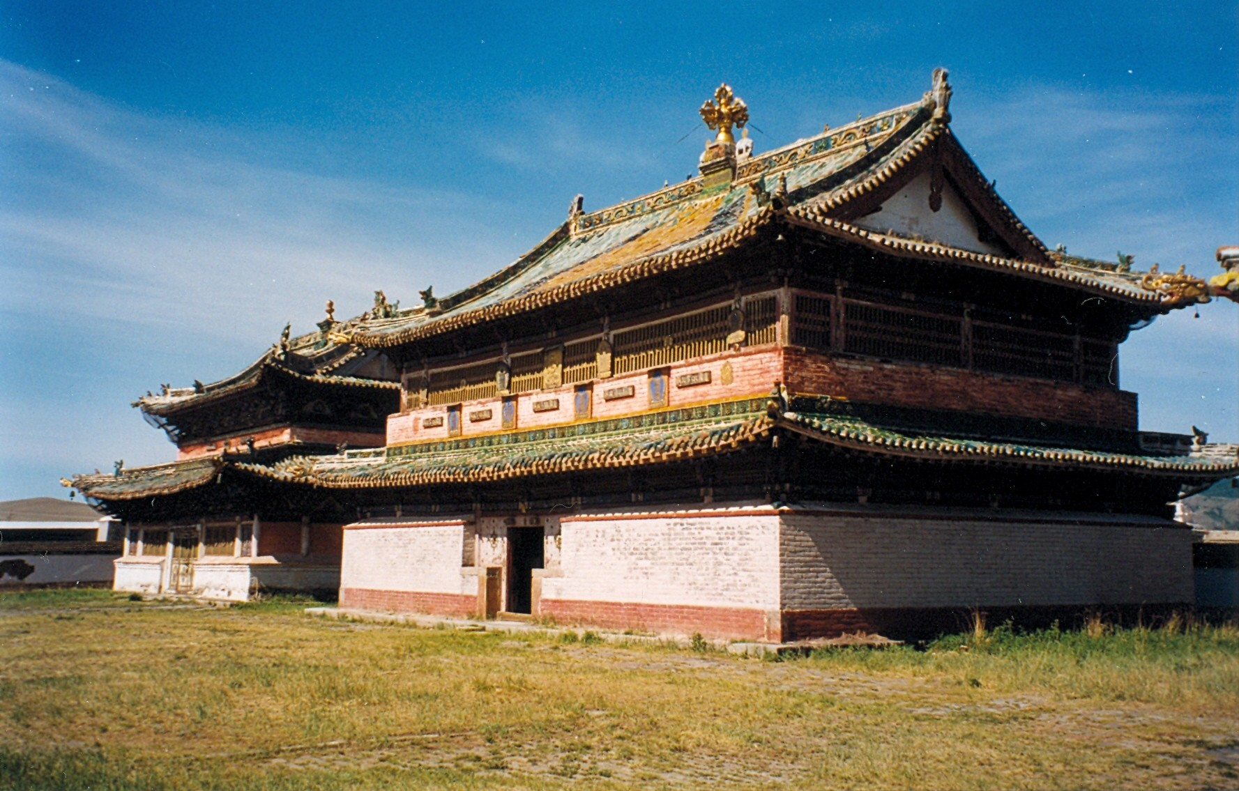 Temple at Erdene Zuu monastery, Övörhangay Province, Mongolia.